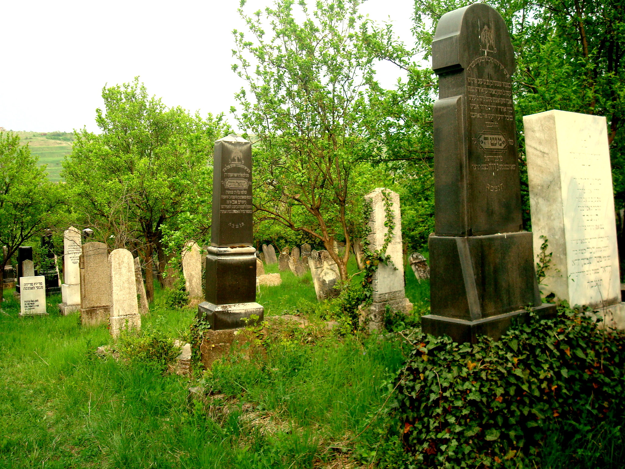 Hebrew cemetery ("Turda Noua" Square)